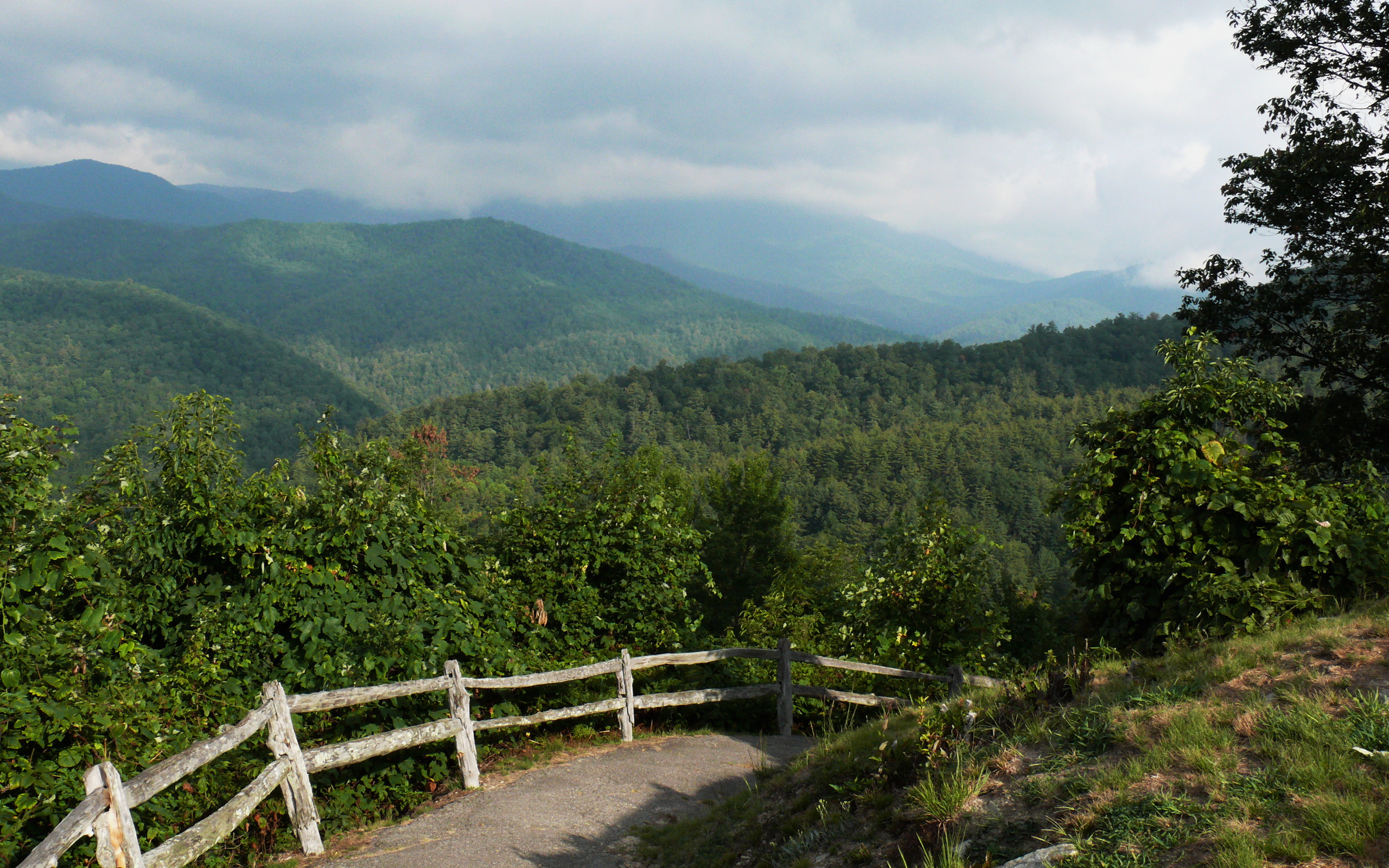 The Cataloochee Valley in Great Smoky Mountains National Park, as seen from the overlook at Sal Patch Gap. Photo taken with a Panasonic Lumix DMC-FZ50 in Haywood County, NC, USA.